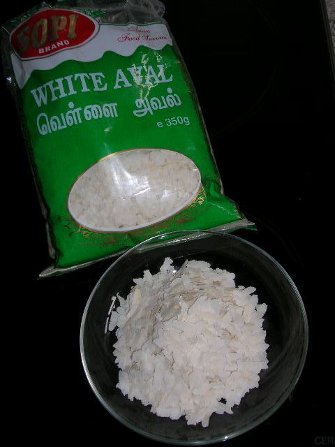 White Aval